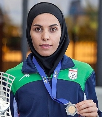 Sara Shirbeigi returning from 2018 AFC Women's Futsal Championship